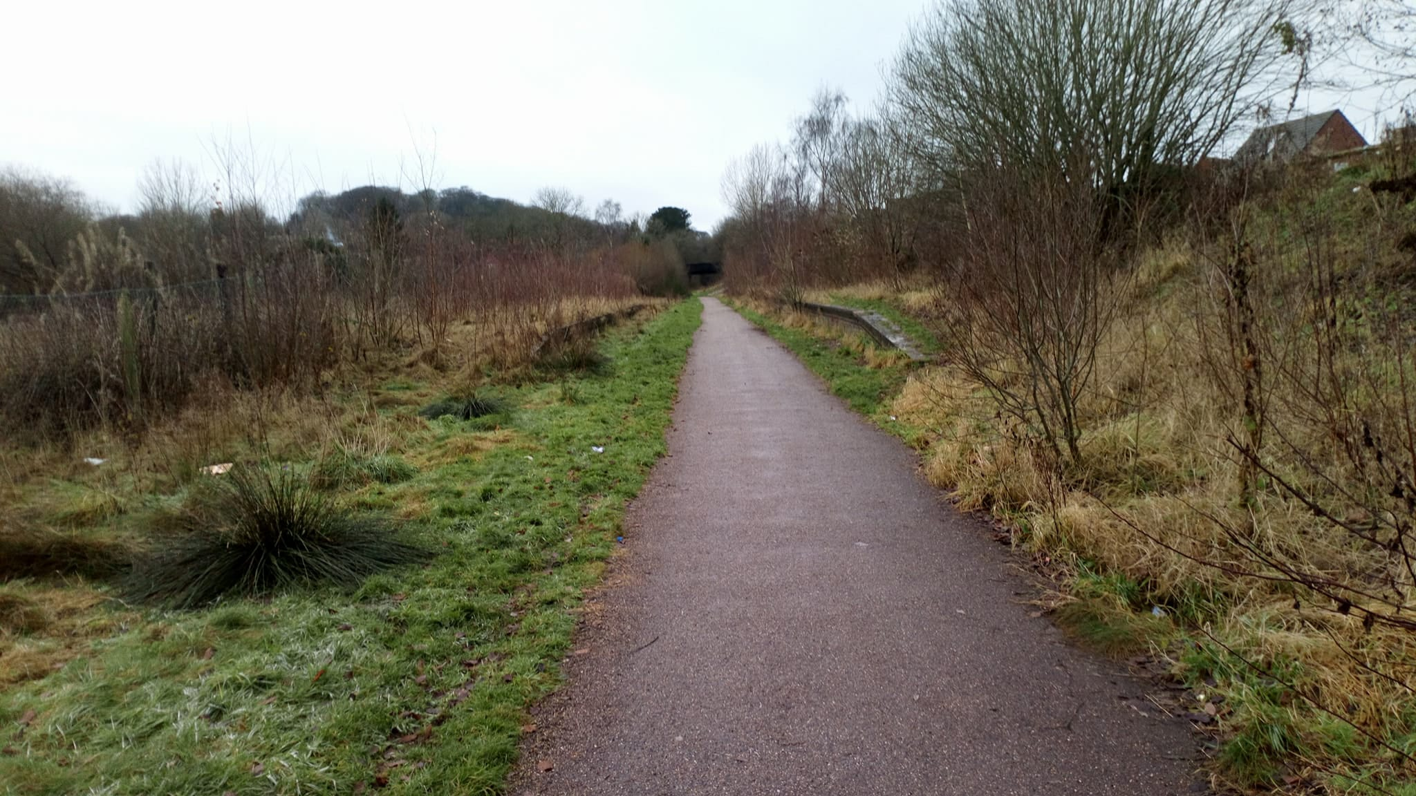 Another of my photo.